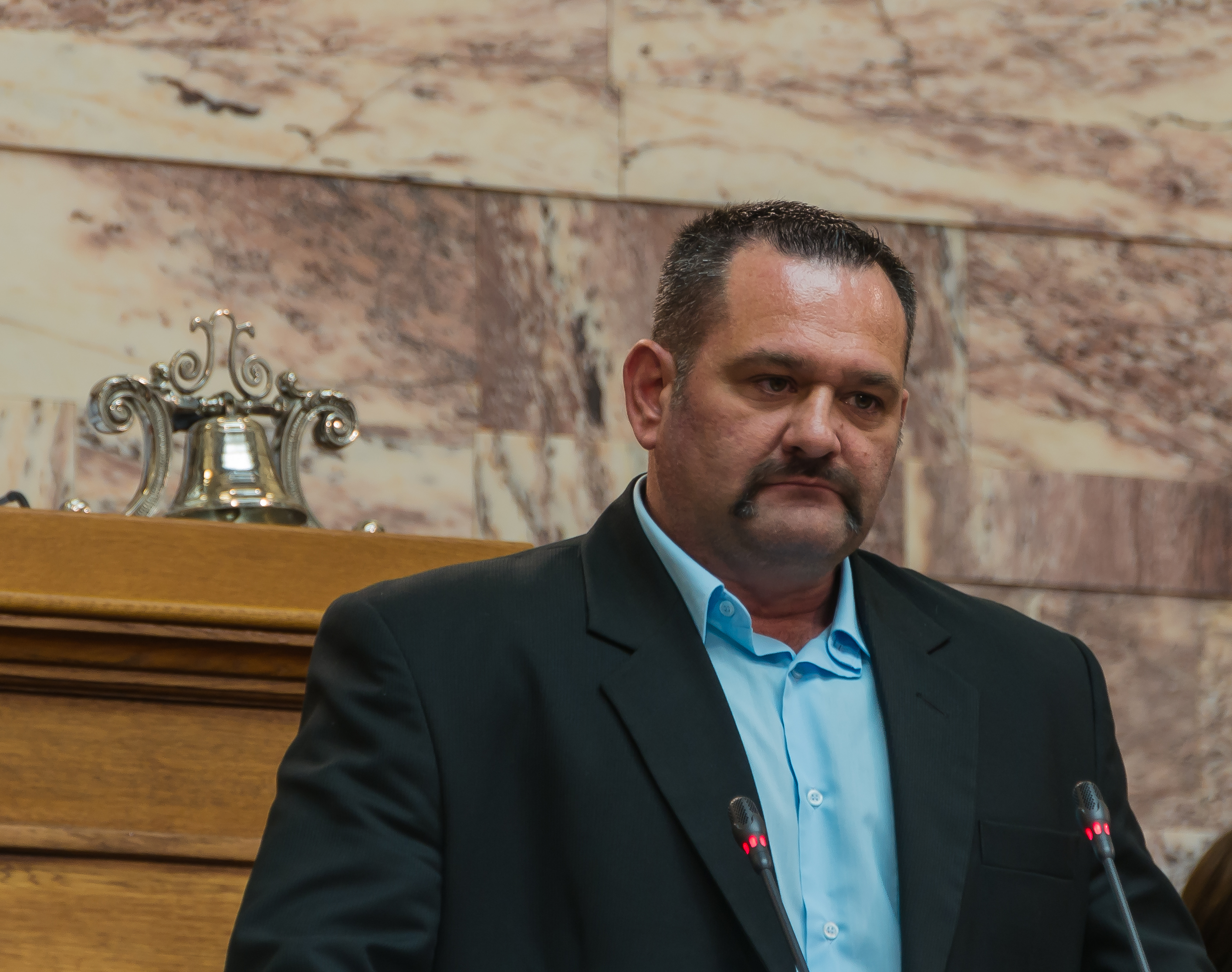 Ioannis Lagos, member of the greek parliament, Golden Dawn party.